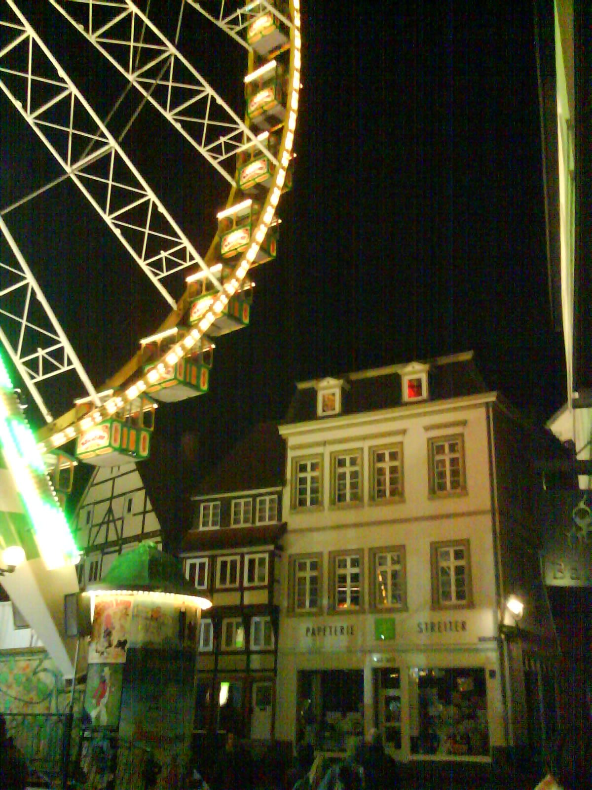 All Saints Fair ("Allerheiligenkirmes") in Soest, Germany, in 2009, Giant Wheel and historical Buildings in the medieval City Center, Cell Phone Shot